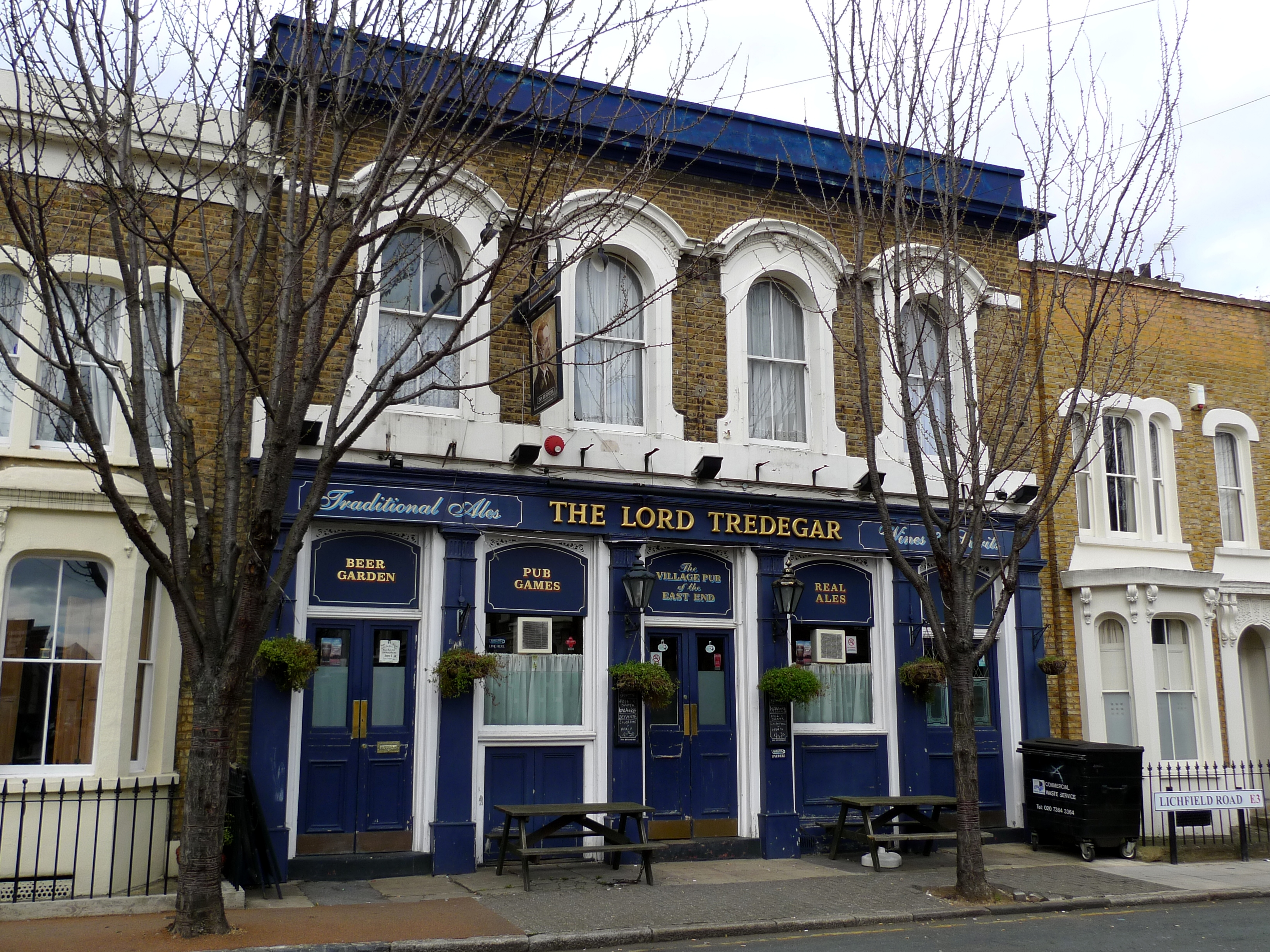 Locals' backstreet pub. Address: 50 Lichfield Road. Owner: Inn Business; Sycamore Taverns (former); Taylor Walker (former). Links: Fancyapint Dead Pubs (history)